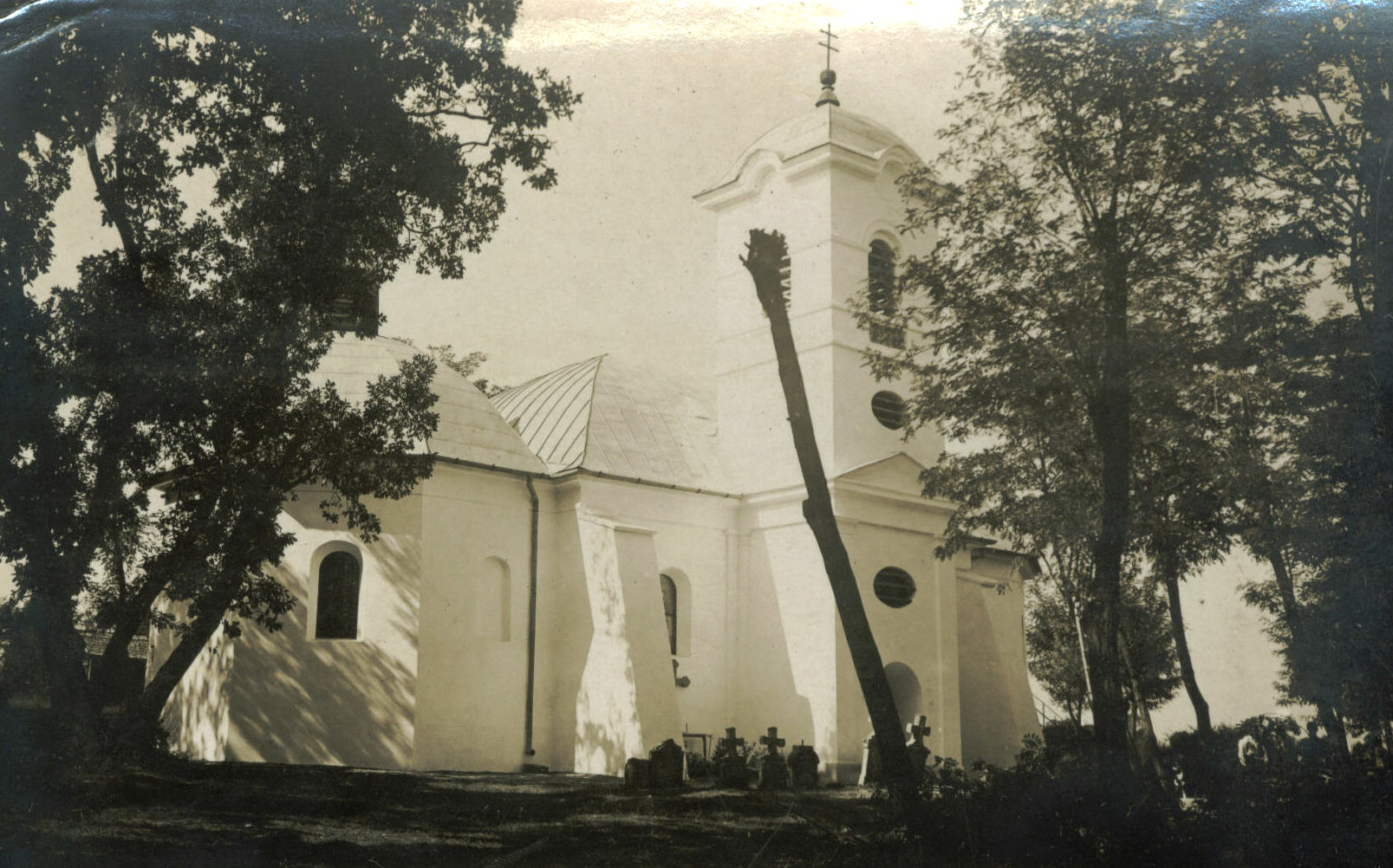 Church of Paňa from 1932